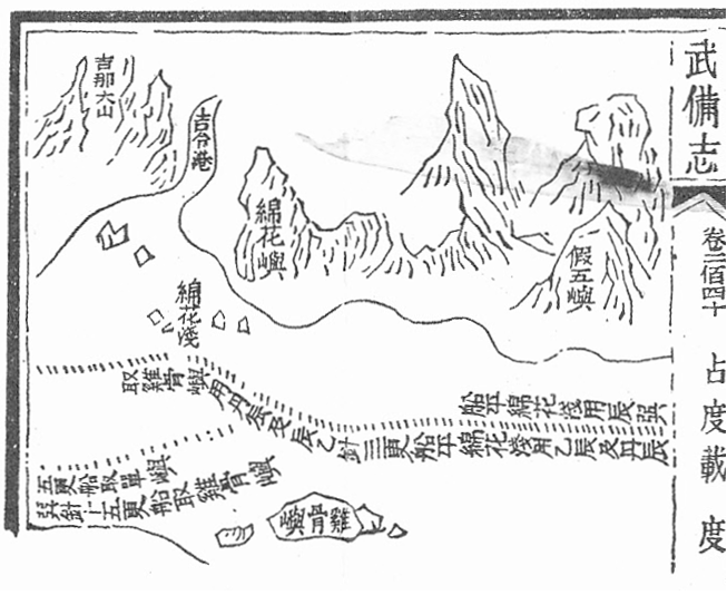 Mao Kun map showing Klang river estuary (吉令港), also marked on the map are Bukit Jugra (綿花嶼) in Selangor and Cape Rachado (假五嶼, Tanjung Tuan) in Malacca, and Aroa Islands (雞骨嶼, Pulau-pulau Aruah) off Sumatra